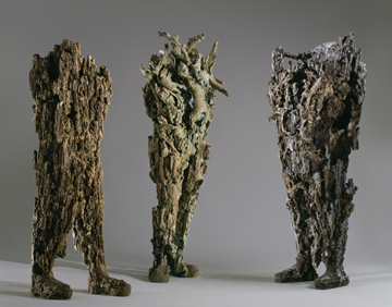 Michele Oka Doner Cast Bronze Collection: University of Michigan Museum of Art Photo: Nick Merrick © Hedrich Blessing, 2008